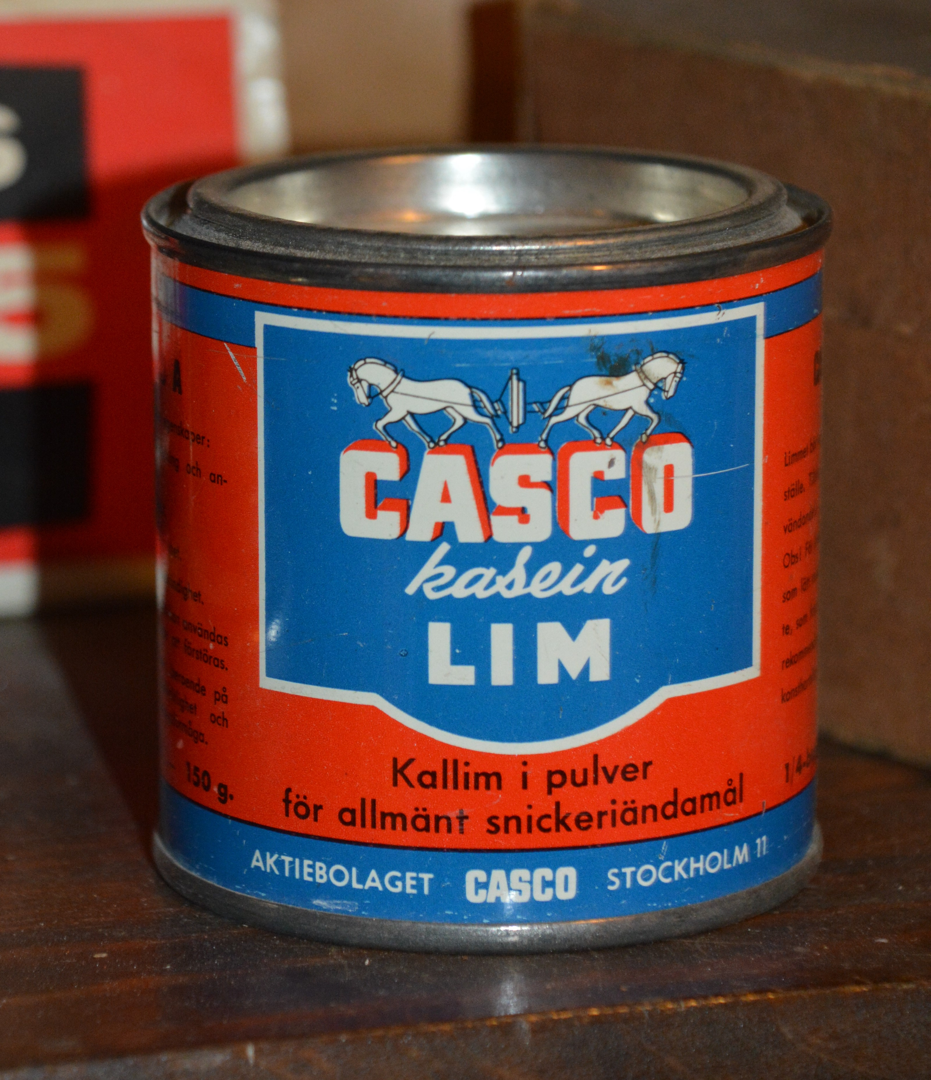 Cascolim